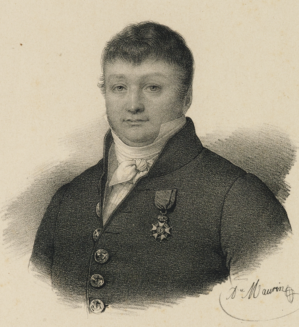 Robert Surcouf